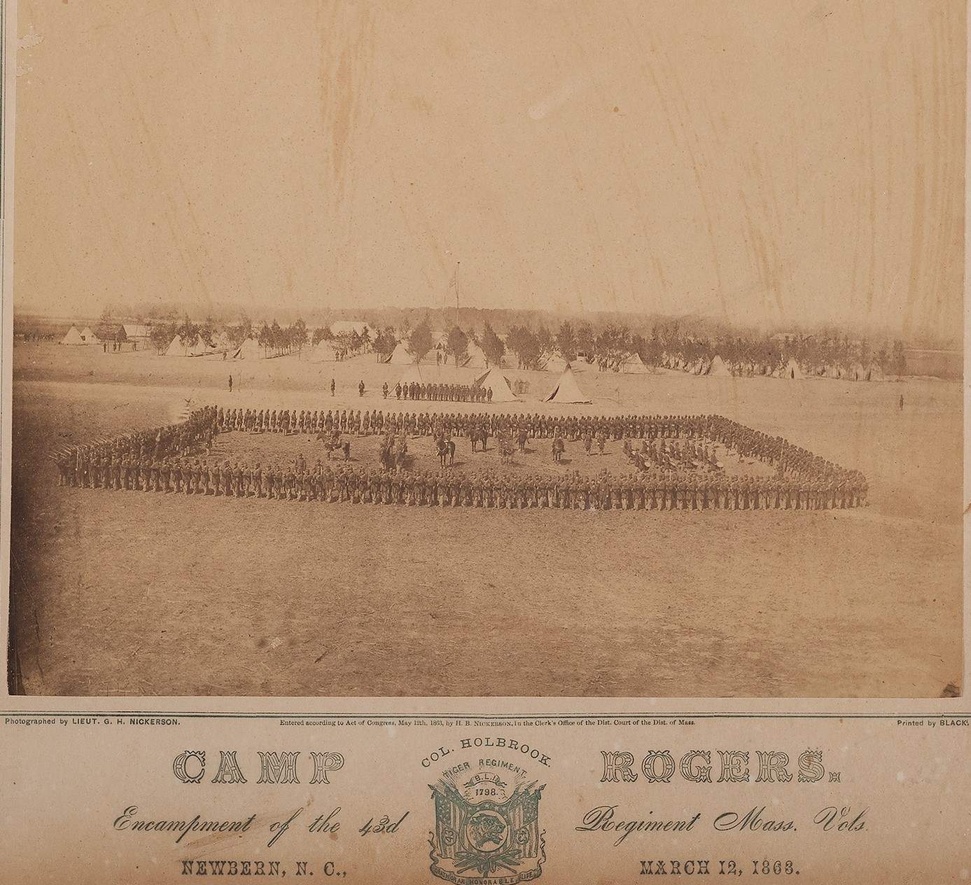 43rd Massachusetts forming square during drill at New Bern, NC in 1863